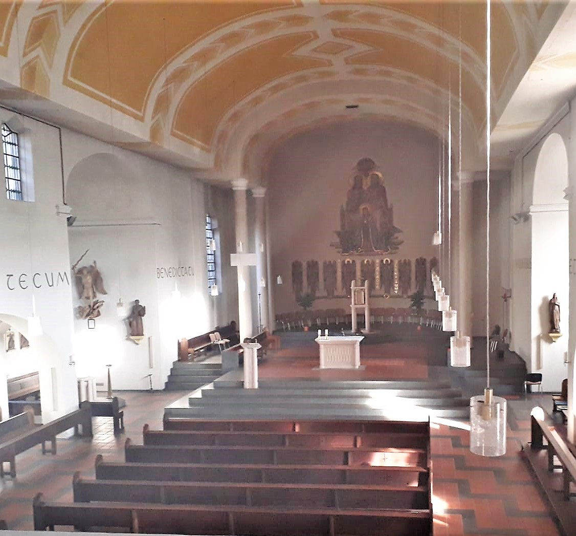 roman catholic St.-Mary's church in Saarbrücken, Saarland, Germany